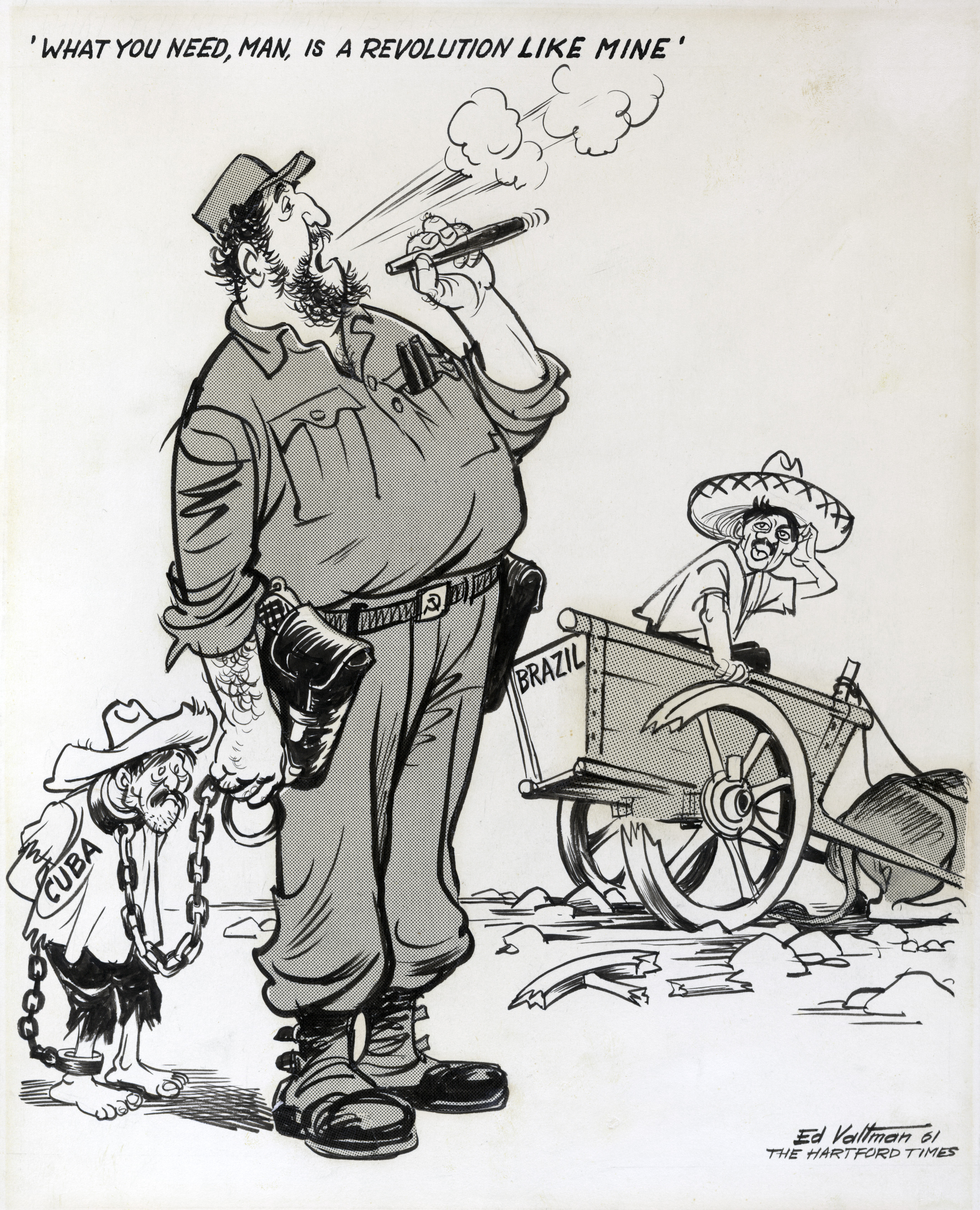 "What you need, man, is a revolution like mine." Valtman portrays Fidel Castro towering above small figures who represent Cuba and Brazil. As Castro advises Brazil to have a communist revolution like the one he led, Brazil looks back at the Cuban leader in puzzlement, perhaps pondering the fate of Cuba in rags and chains. Shortages of food and consumer goods were reported in the island nation in late August, at the time that Valtman made this drawing. At the same time, Brazil was facing the economic challenge of debt and a crisis of leadership when Pres. Jânio Quadros resigned on August 25th. Though Latin American countries that desired social reform initially regarded Castro with sympathy, Valtman seems to suggest that Brazil has come to view his example with skepticism. This cartoon won the 1962 Pulitzer Prize for Editorial Cartooning.